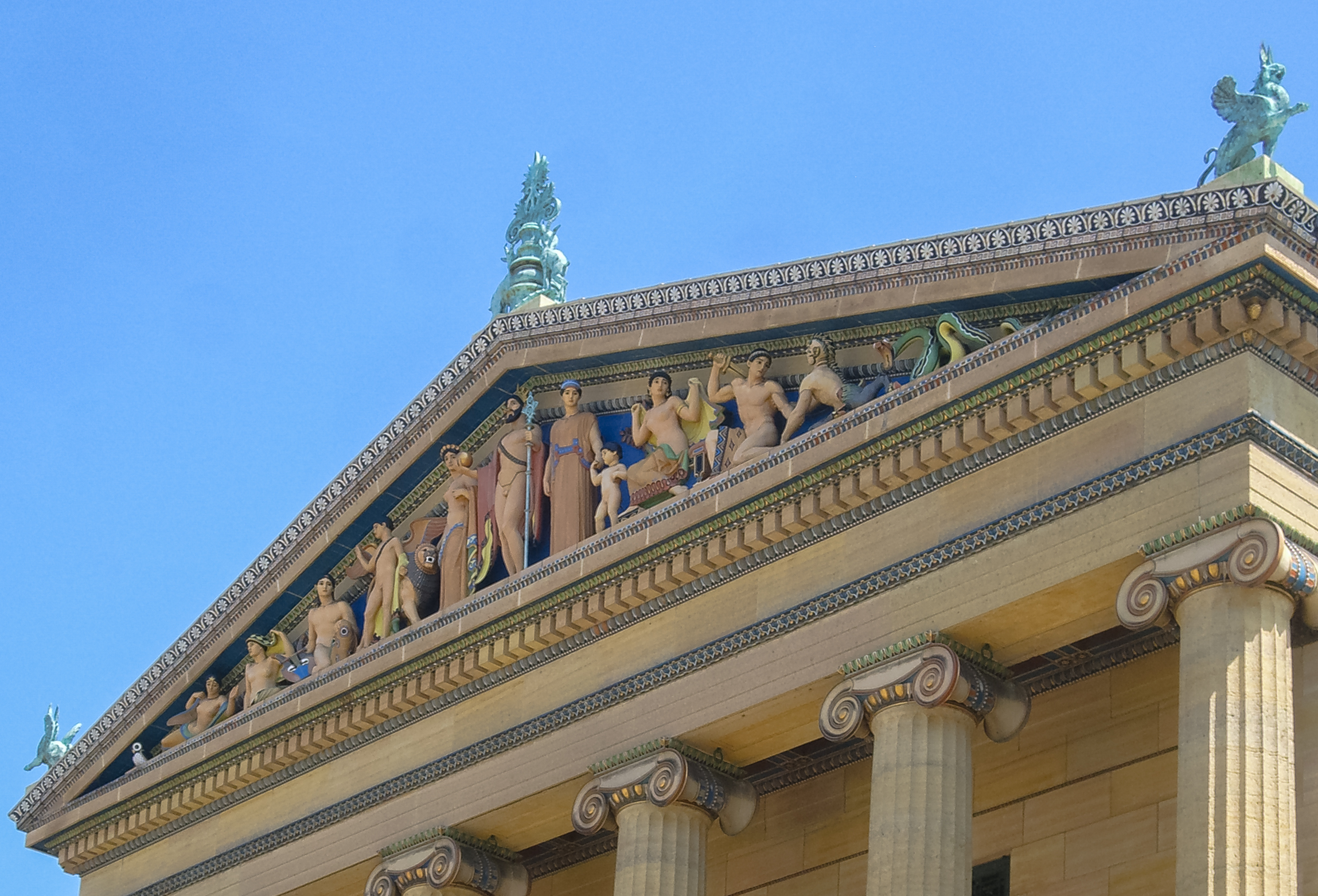 Philadelphia Museum of Art. For a less oblique view, see here (with figures identified).